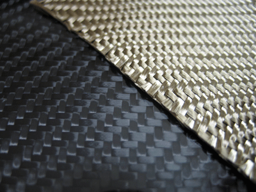 Hybrid Basalt laminated sheet. Raw Basalt fiber fabric and carbon fiber fabric material is processed together with epoxy resin or other resin systems. The raw basalt and carbon fabric and resin system are procesed together using heat and pressure to produce a very high quality sheet laminate material. The completed basalt / carbon fiber hybrid sheet posesses very high strength properties that can be greater than metals. The finished sheet is however extremely light weight, weighing a fraction of its metal counterpart. The biggest advantage of a basalt / carbon fiber sheet is a significant reducing in cost of the final product, while still maintaining properties very near a regular carbon fiber product.